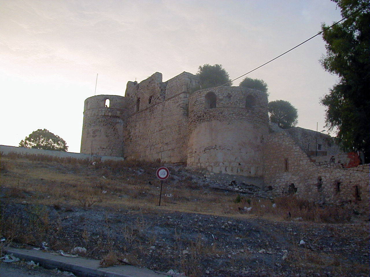 Citadel of Béja, Tunisia